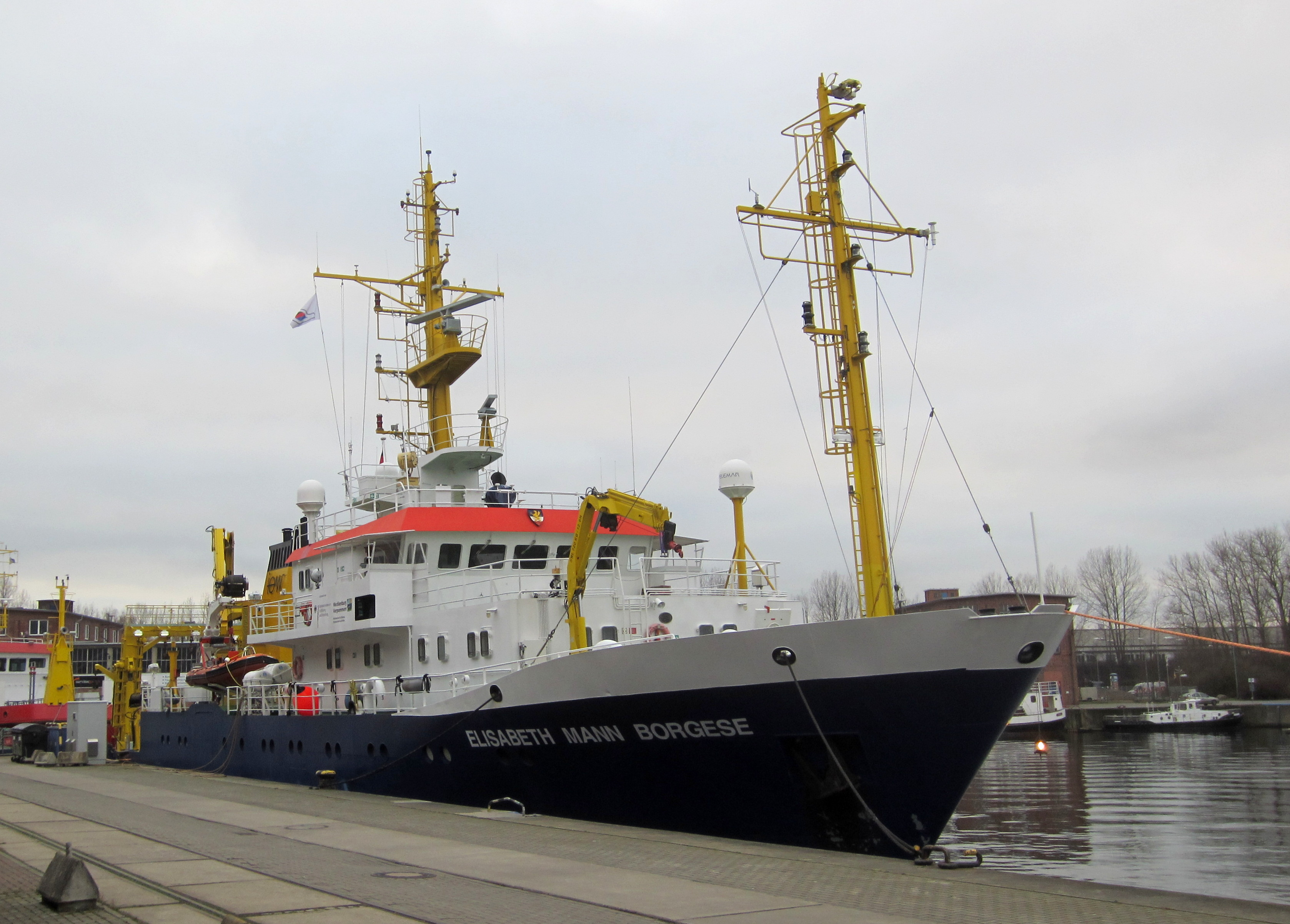 Research Vessel Elisabeth Mann Borgese (IMO 8521438) in Rostock harbour in January 2015.